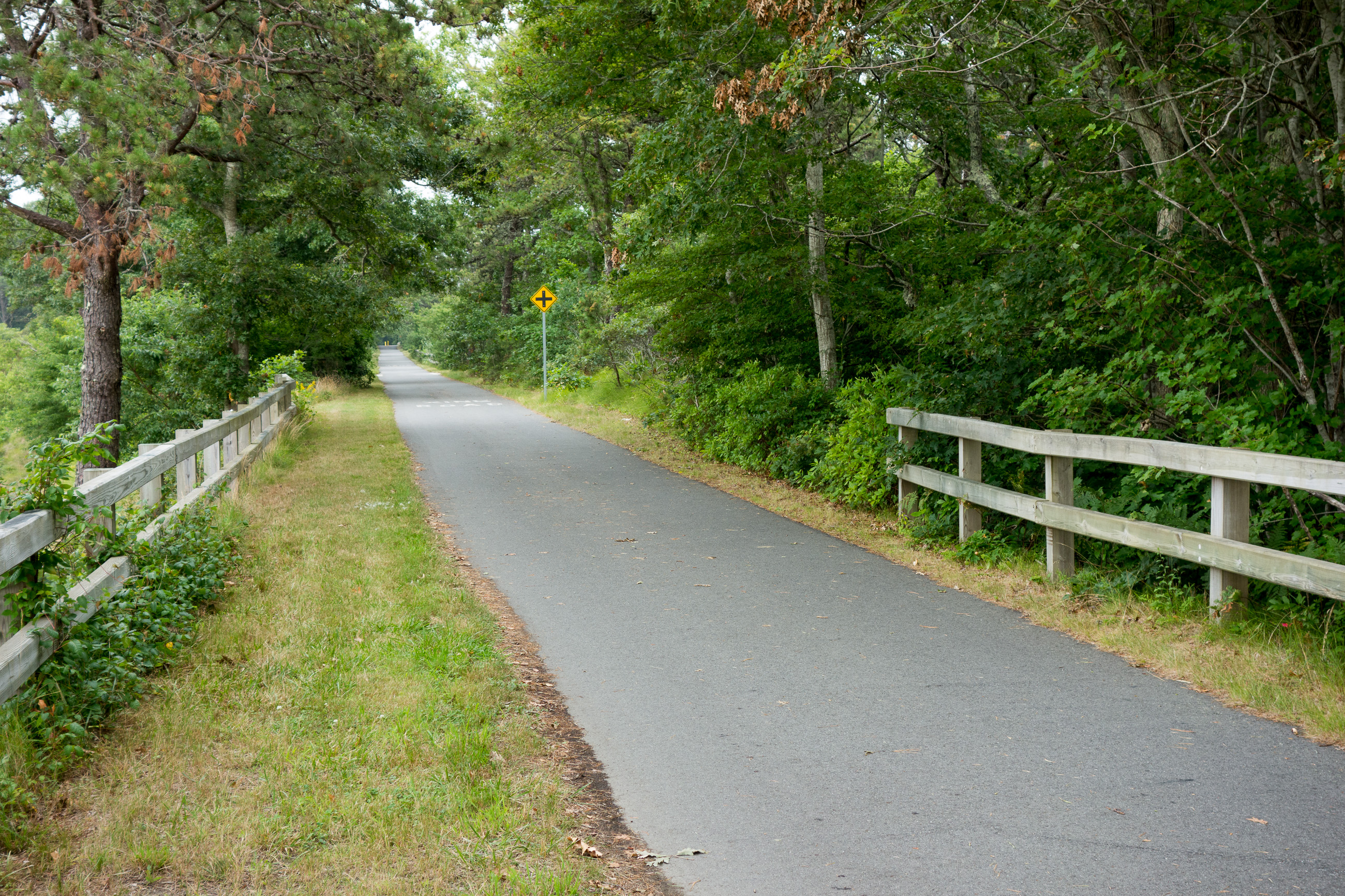 Cape Cod Rail Trail in Harwich, Massachusetts, 2014.